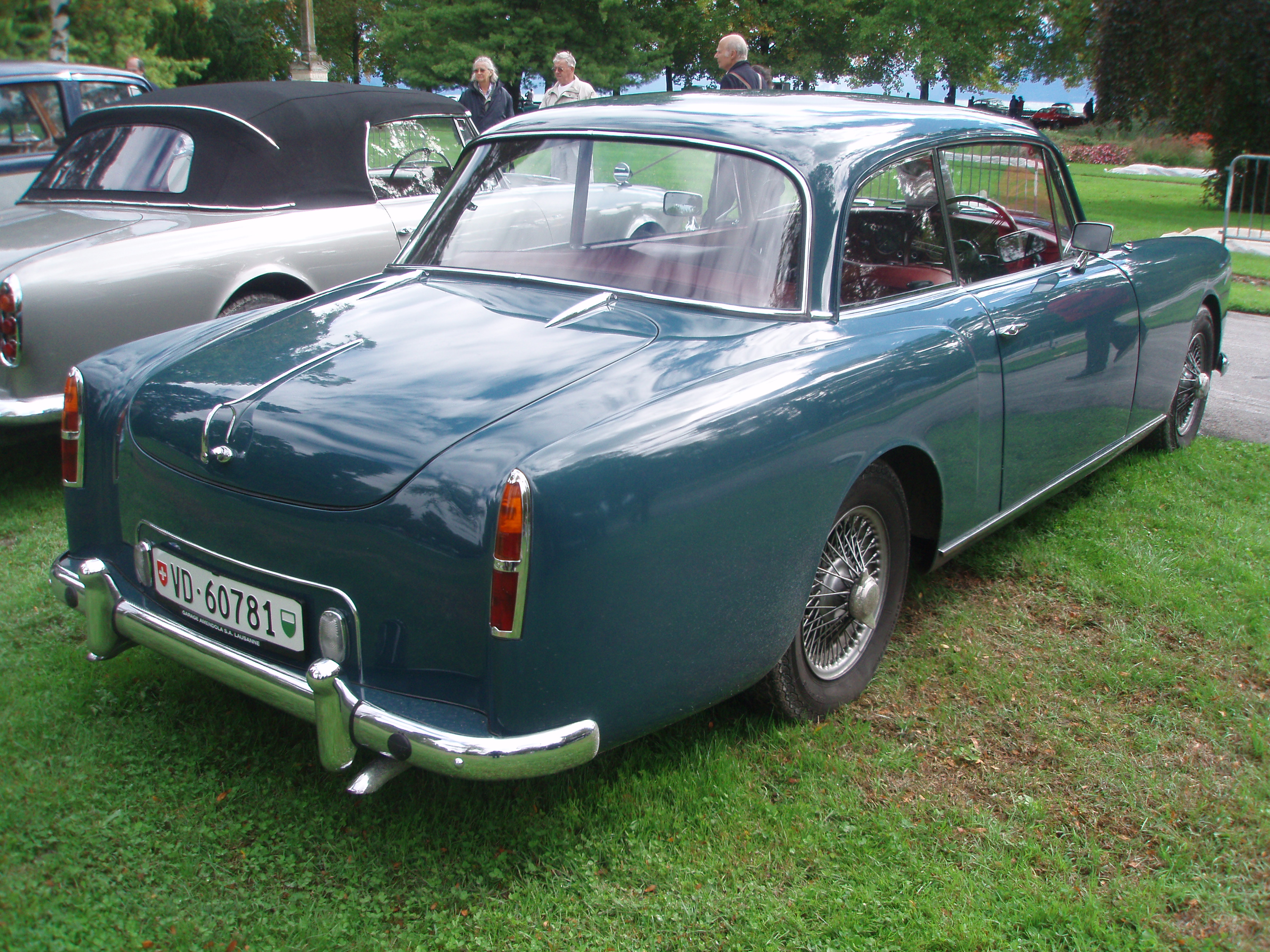 1964 Alvis TE21, factory Park-Ward coupé body